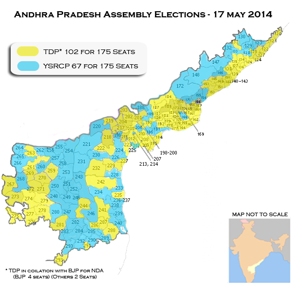 Andhra Pradesh Legislative Assembly election result 2014